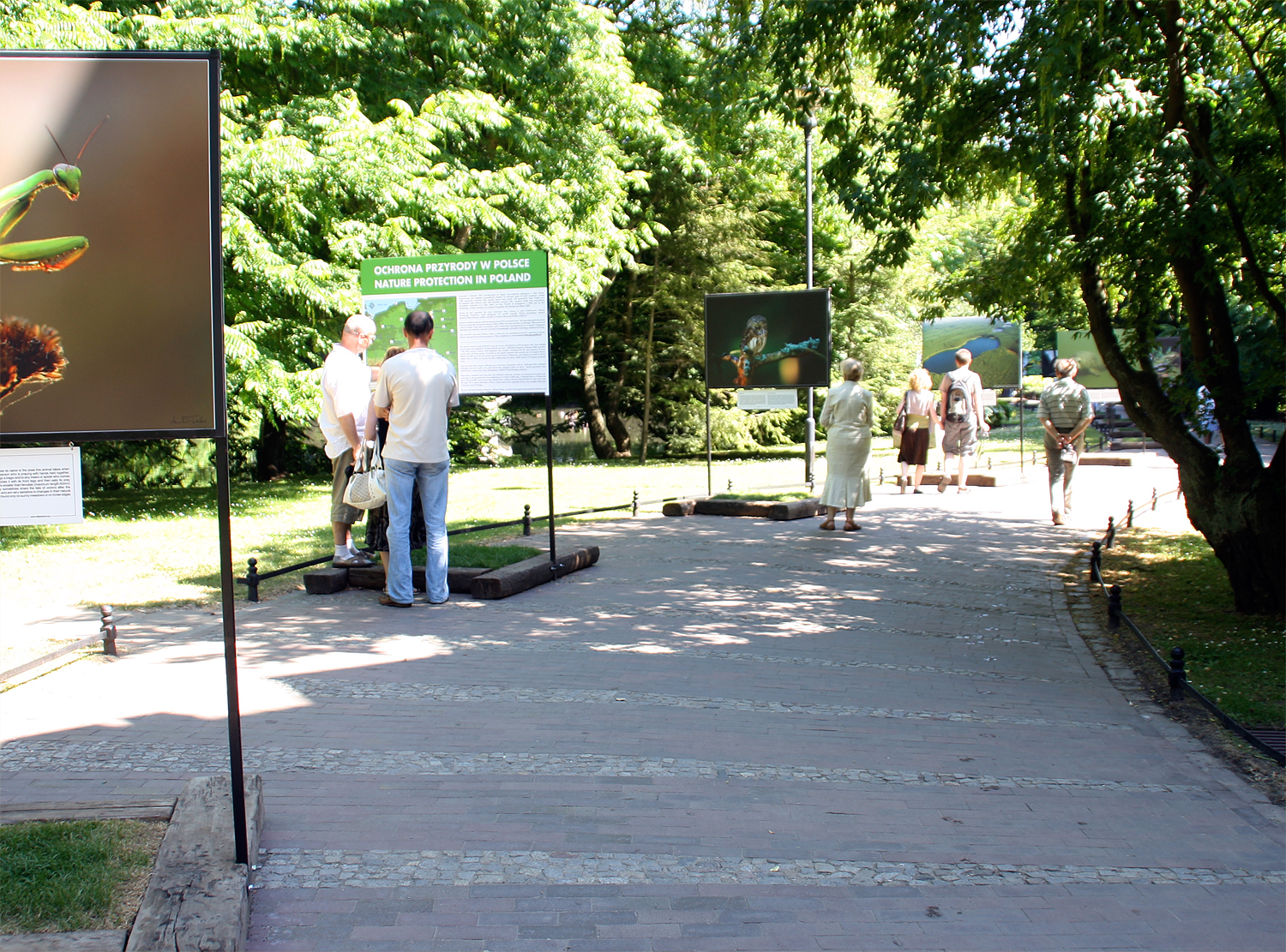 Exhibition Wild Poland. Natural heritage of Europe in Oliwa Park near Gdansk